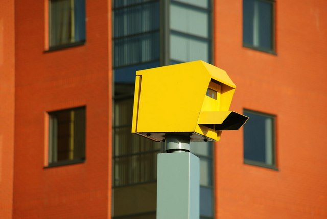 Traffic camera, Belfast. This "red light" camera is close to where Dalton Street 495146 crosses Middlepath Street 587545. I have never seen it flash despite being or passing here four or five times every week.